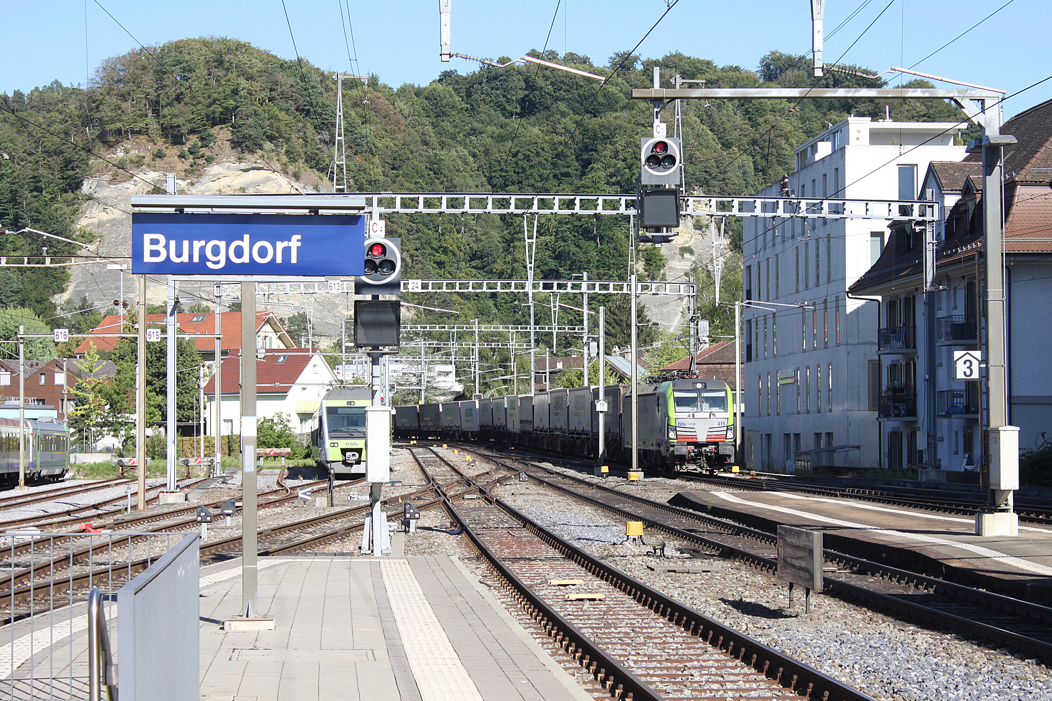 A BLS Re 475 arriving at Burgdorf railway station ahead of an "Ambrogio" freight train.